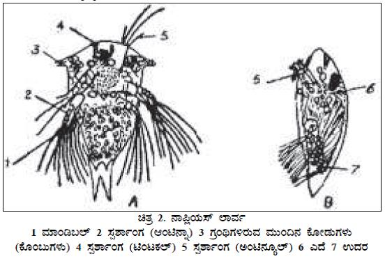 barnacles